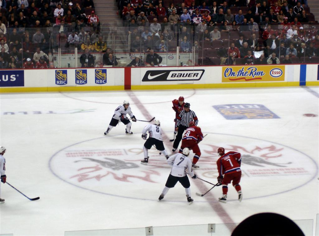 USA vs Russia, 2006 IIHF World U20 Championship.